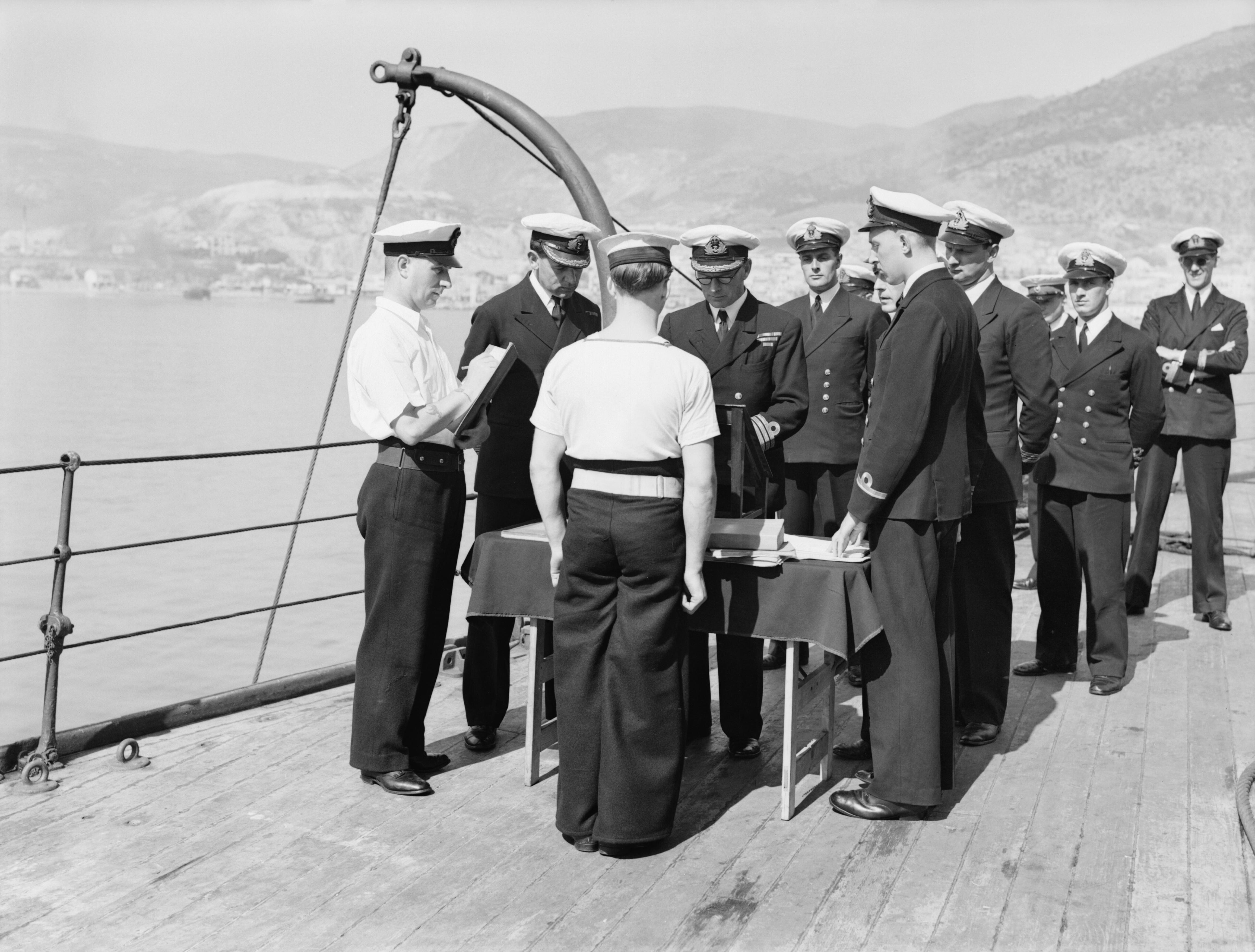 The Royal Navy during the Second World War On board HMS RODNEY the Master at Arms (left) reading out the names at the "Captain's Defaulters and Requestmen" parade. A Defaulters and Requestmen parade is a court (petty sessions rather than courts martial) for both trying minor offences by defaulters or hearing pleas and petitions whilst aboard ship. It takes place at the break of the quarterdeck on a ship at the same time each morning. As the sailor in this image is still wearing his cap in front of the Commander he is a 'Requestman'. Defaulters have to remove their caps.